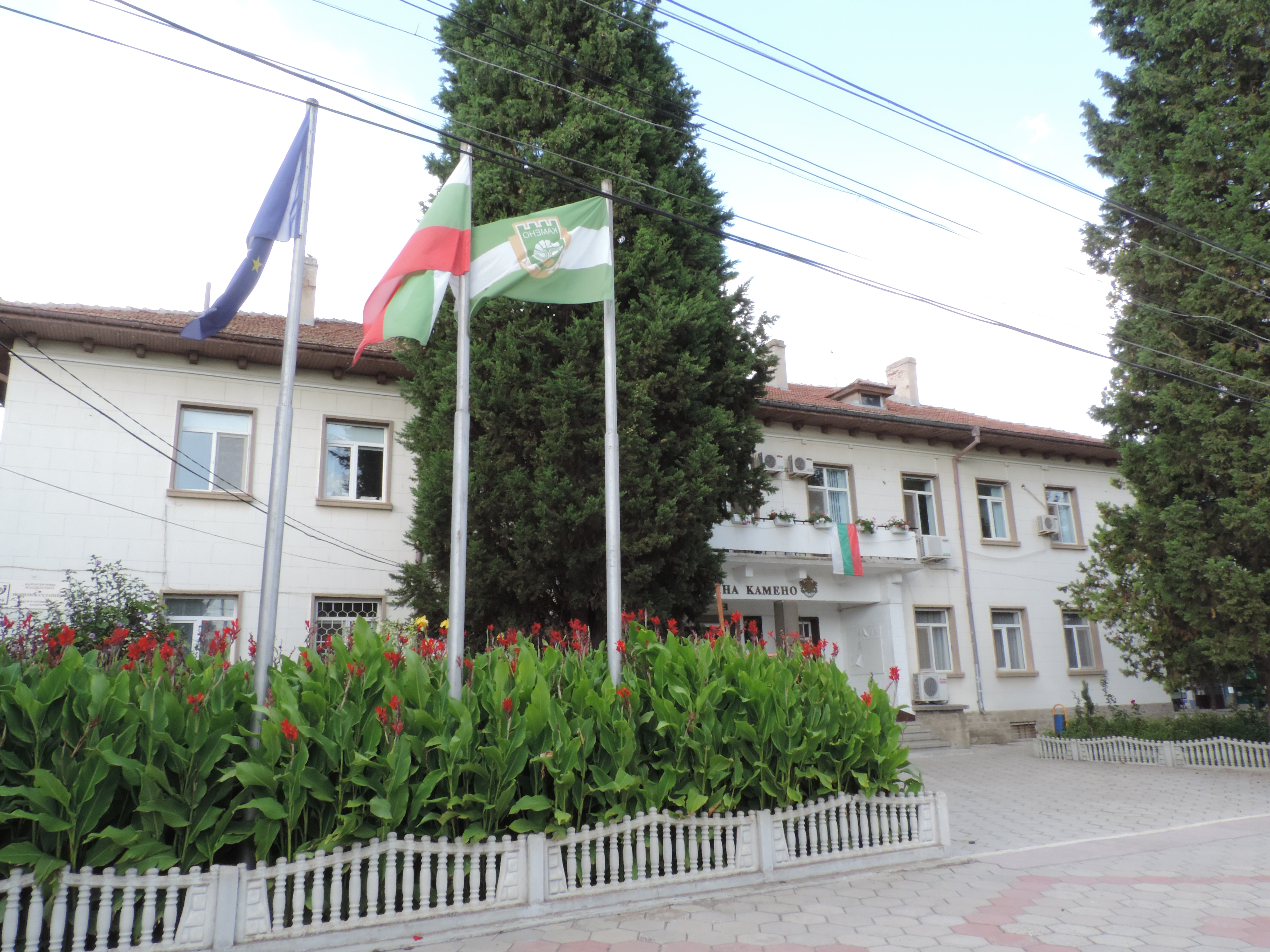 Townhall of Kameno Municipality, Burgas Province, Bulgaria